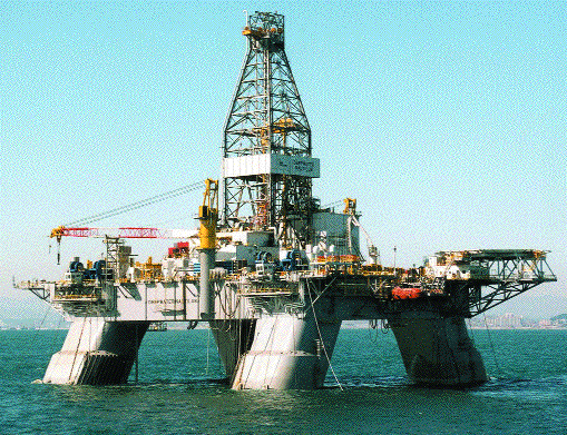 A Mobile Offshore Drilling Unit